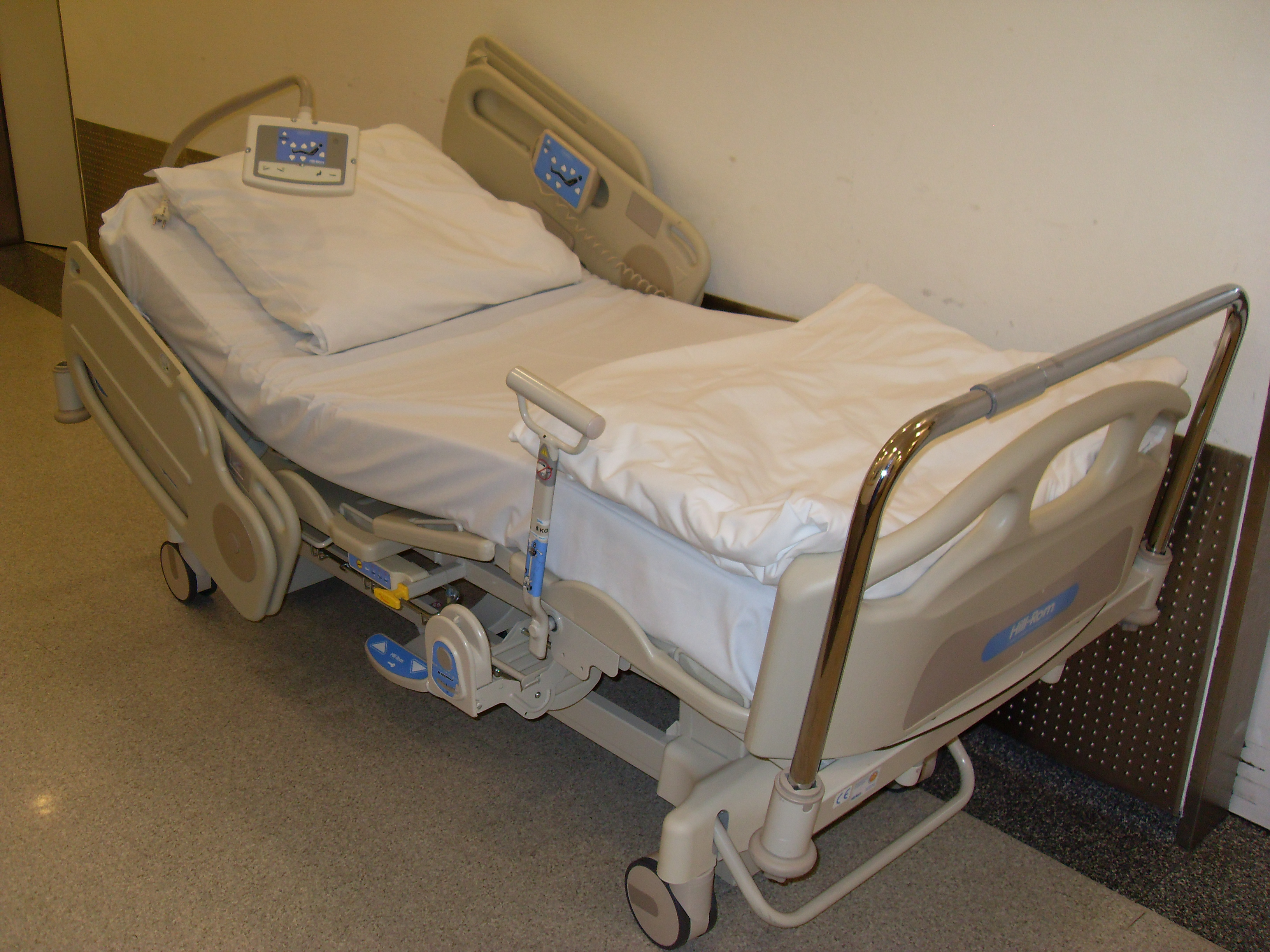 electrically moved hospital bed 2011